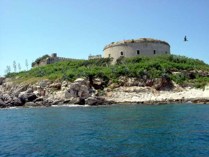 Former military prison on Mamula Island, Montenegro. Photo by: Aleksandar Bogicevic